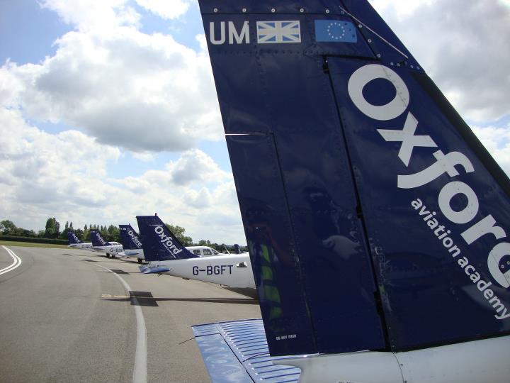 Oxford Aviation Academy airplanes on the apron of London Oxford Airport, Oxfordshire, UK.